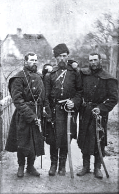 Polish Gendarmerie of the January Uprising